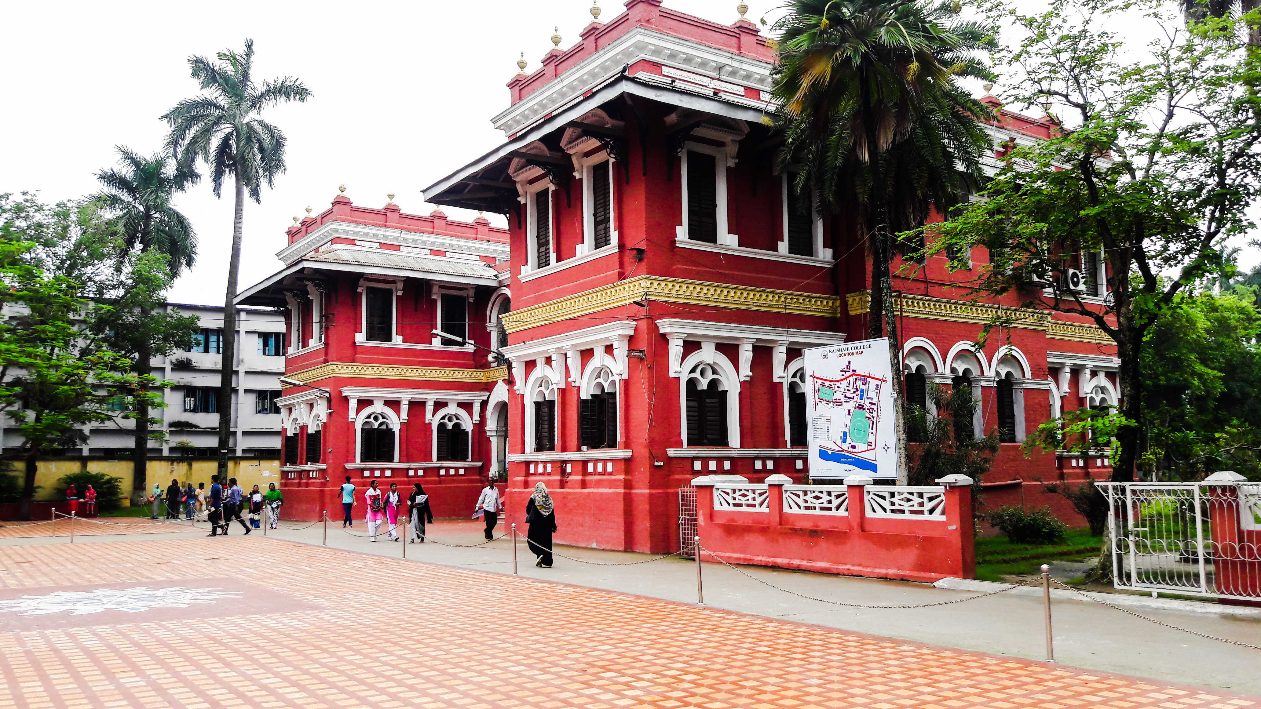 Rajshahi College is situated in the city center, adjacent to Rajshahi Collegiate School and is very near the famous Barendra Museum. It is said to be the third oldest institutions of higher education in Bangladesh after Dhaka College and Chittagong College.